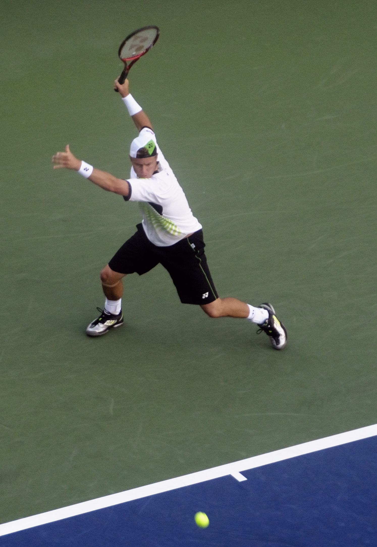 Lleyton Hewitt at the 2009 US Open